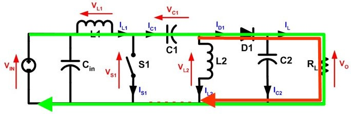 Direction of currents with S1 open